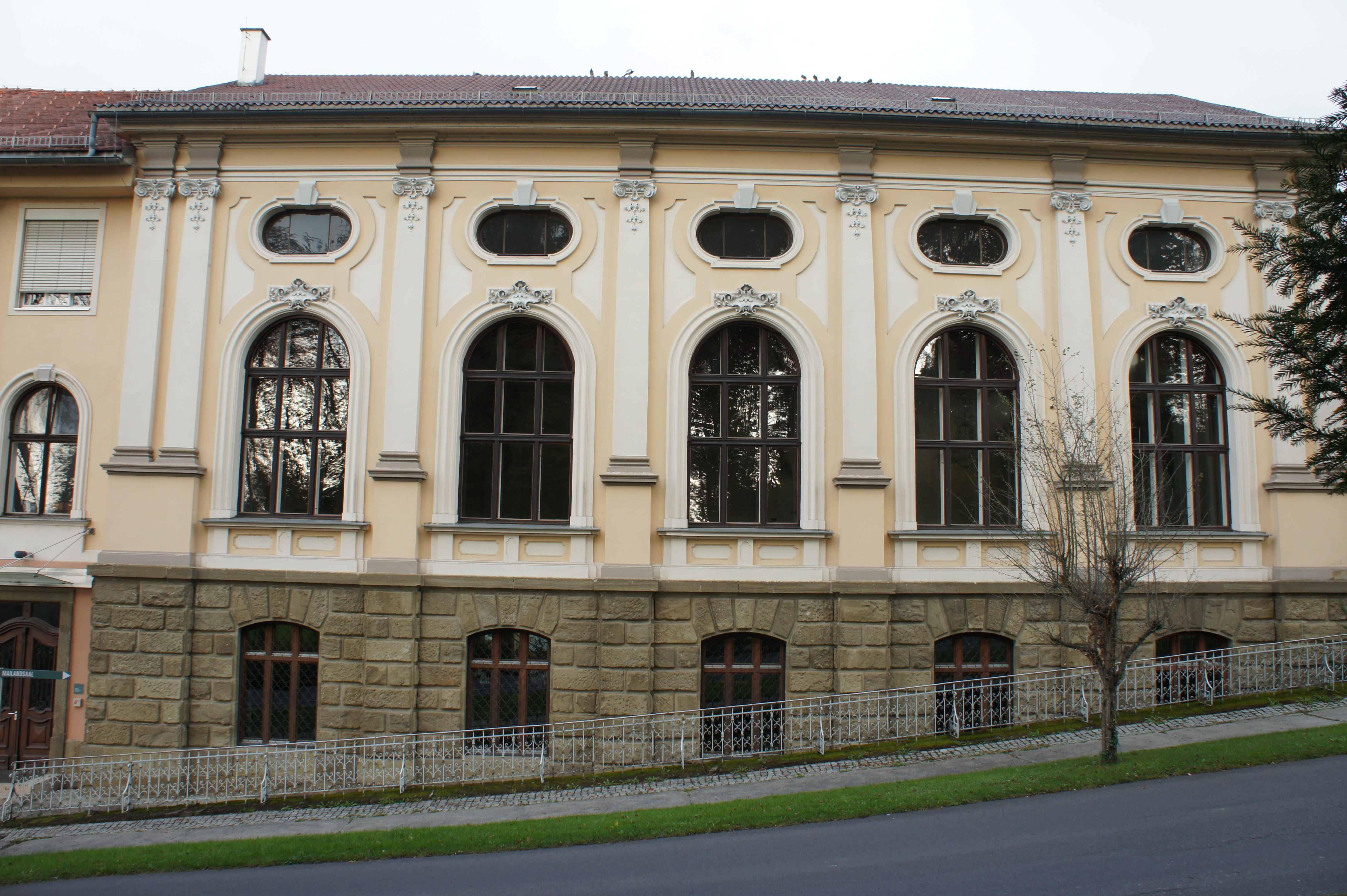 Trade school for tourism, former Hotel Mailand, Bad Gleichenberg, Austria